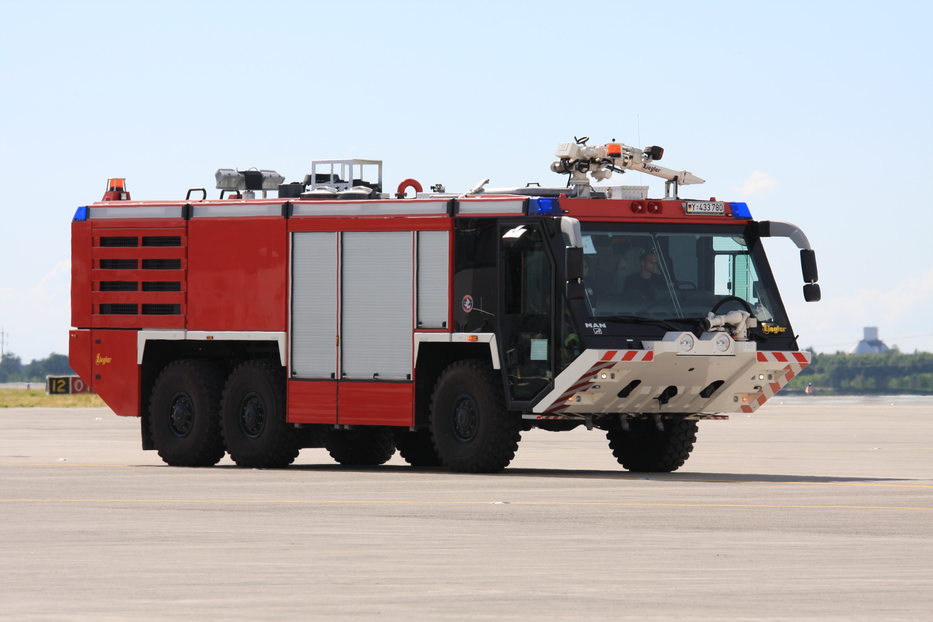 Airport crash tender of the Holzdorf Airforce Base